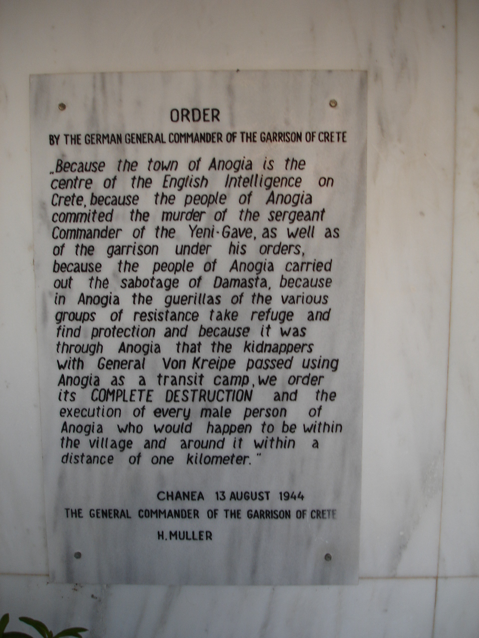 Friedrich-Wilhelm Müller's Order of the destruction of Anogia 13 August 1944